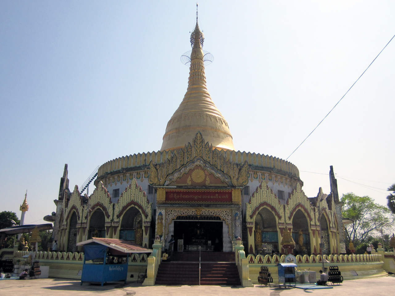 Gaba Aye Pagoda (World Peace Pagoda), Yangon